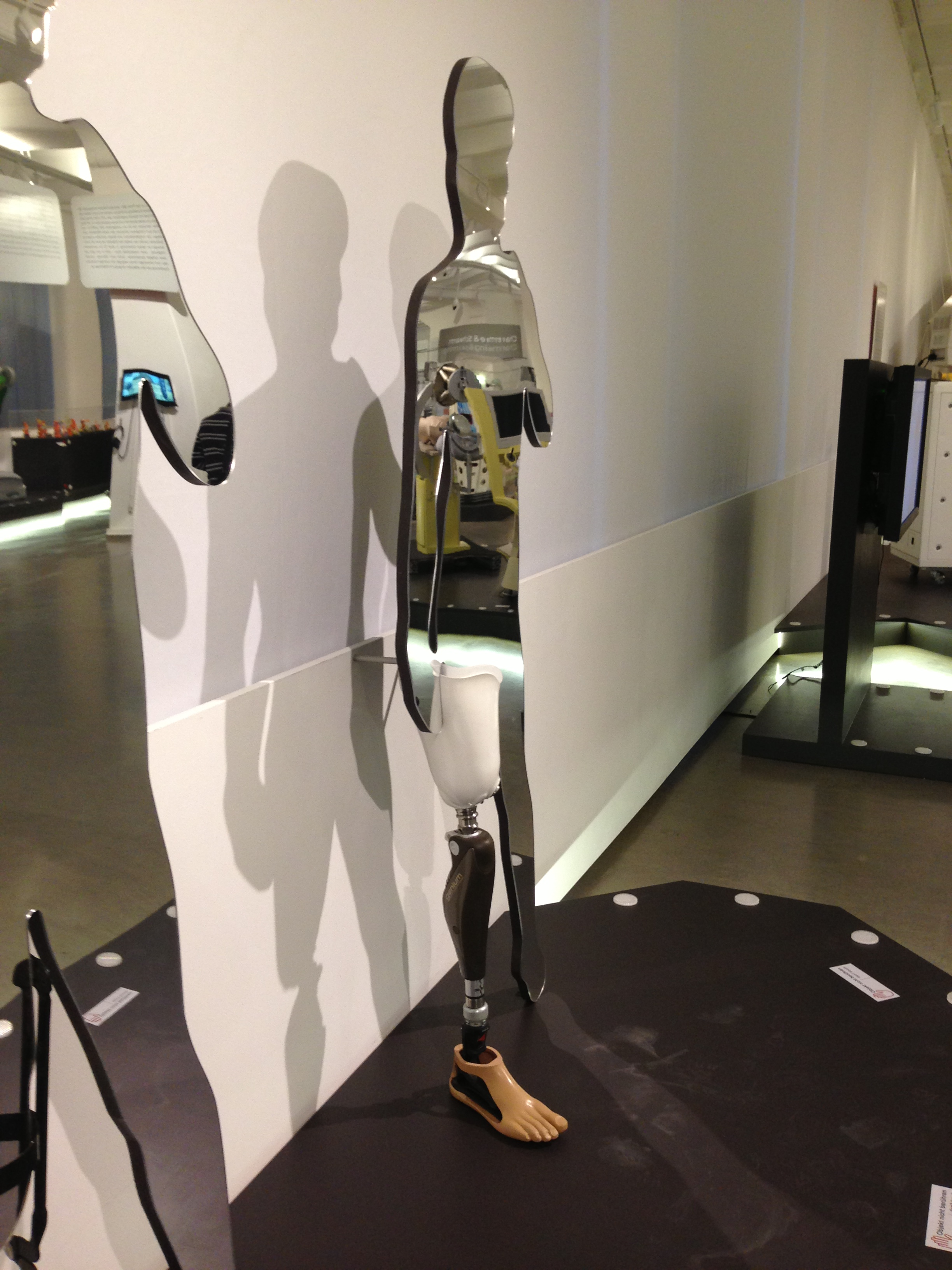 Otto Bock: lower limb prosthesis genium at the Vienna Technical Museum